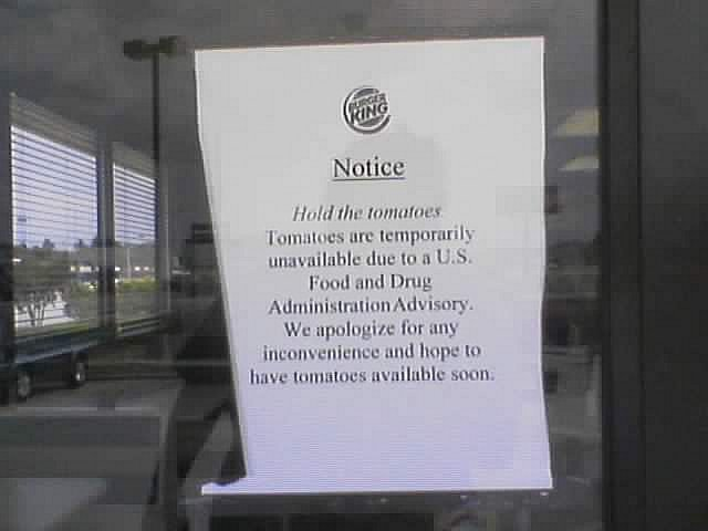 This photo was taken at a Havelock, NC Burger King on 19 June. The sign indicates no tomatoes are available due to the salmonella outbreak.